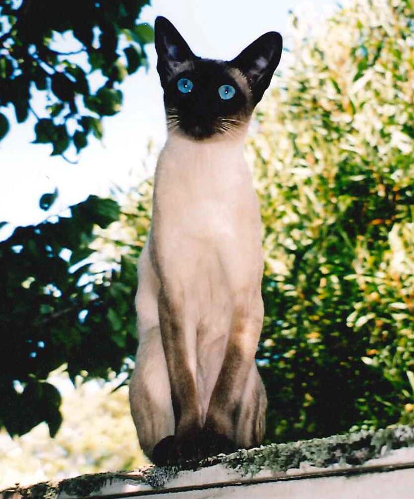 Photo of male Seal Point Siamese Cat Pedigree Name Urban Warrior aka Milo